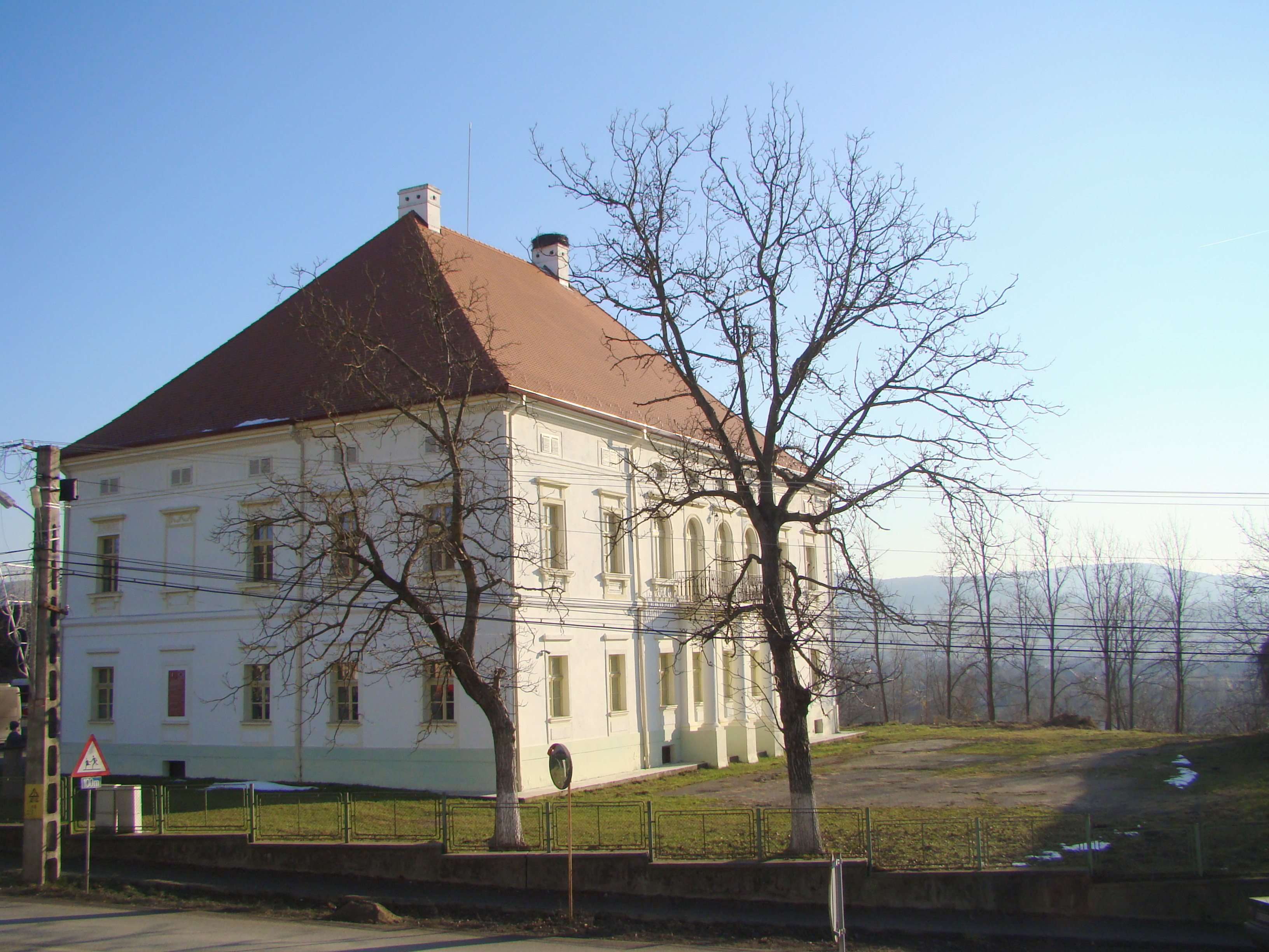 The Rhédey castle in Sângeorgiu de Pădure, Mureş county, Romania